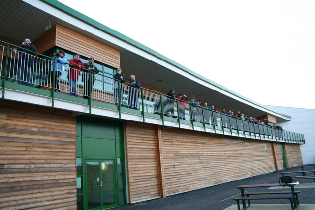 The Engine House, Highley Severn Valley Railway visitor centre and museum.